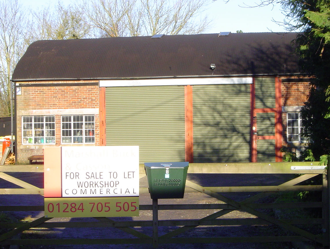 Vacant workshop premises in The Street, Lawshall, Suffolk. They were originally agricultural workshops and but more recently have been used for the erection and repair of specialist racing cars.